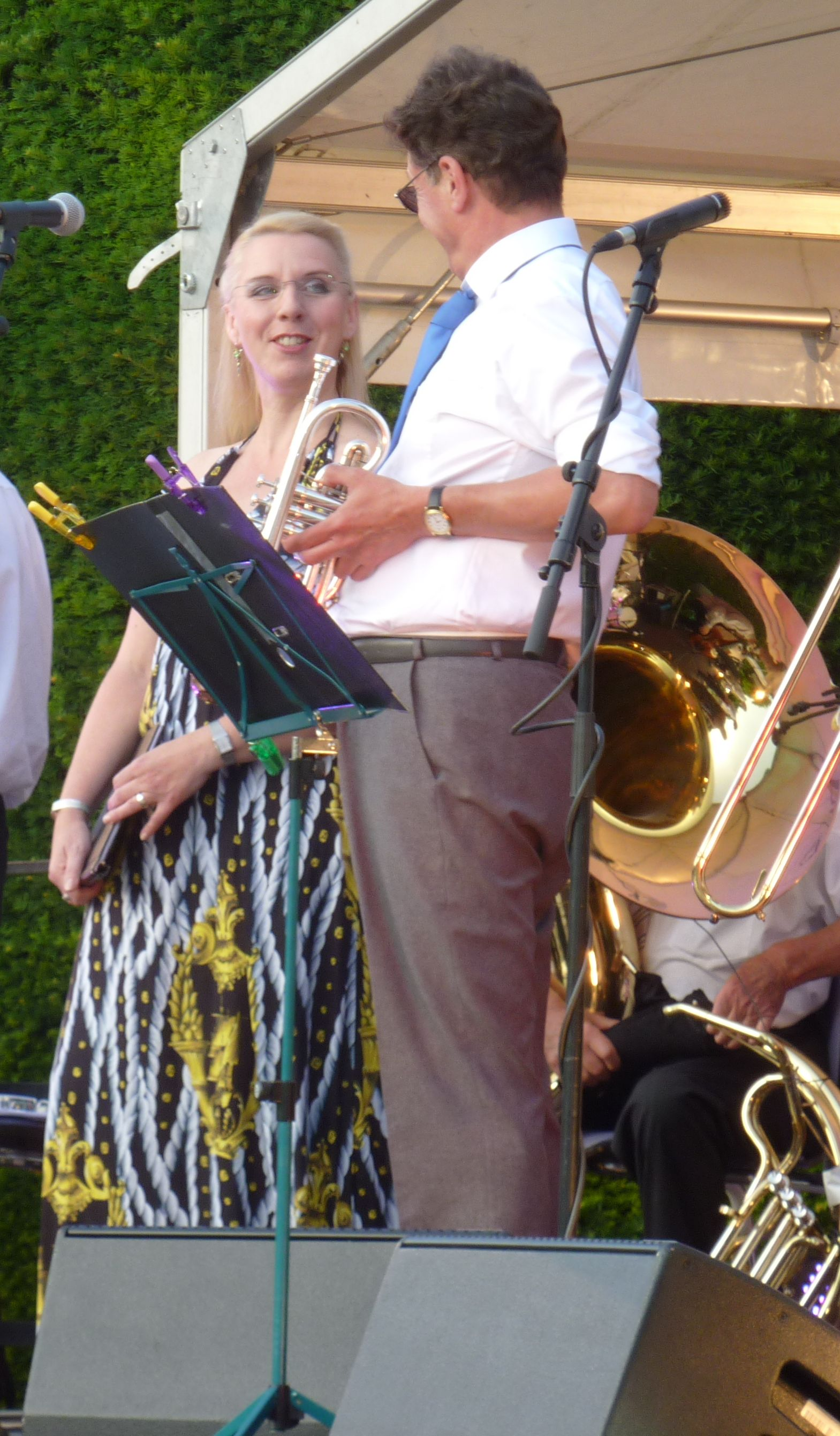 Cornelia Götz und Andy Lawrence